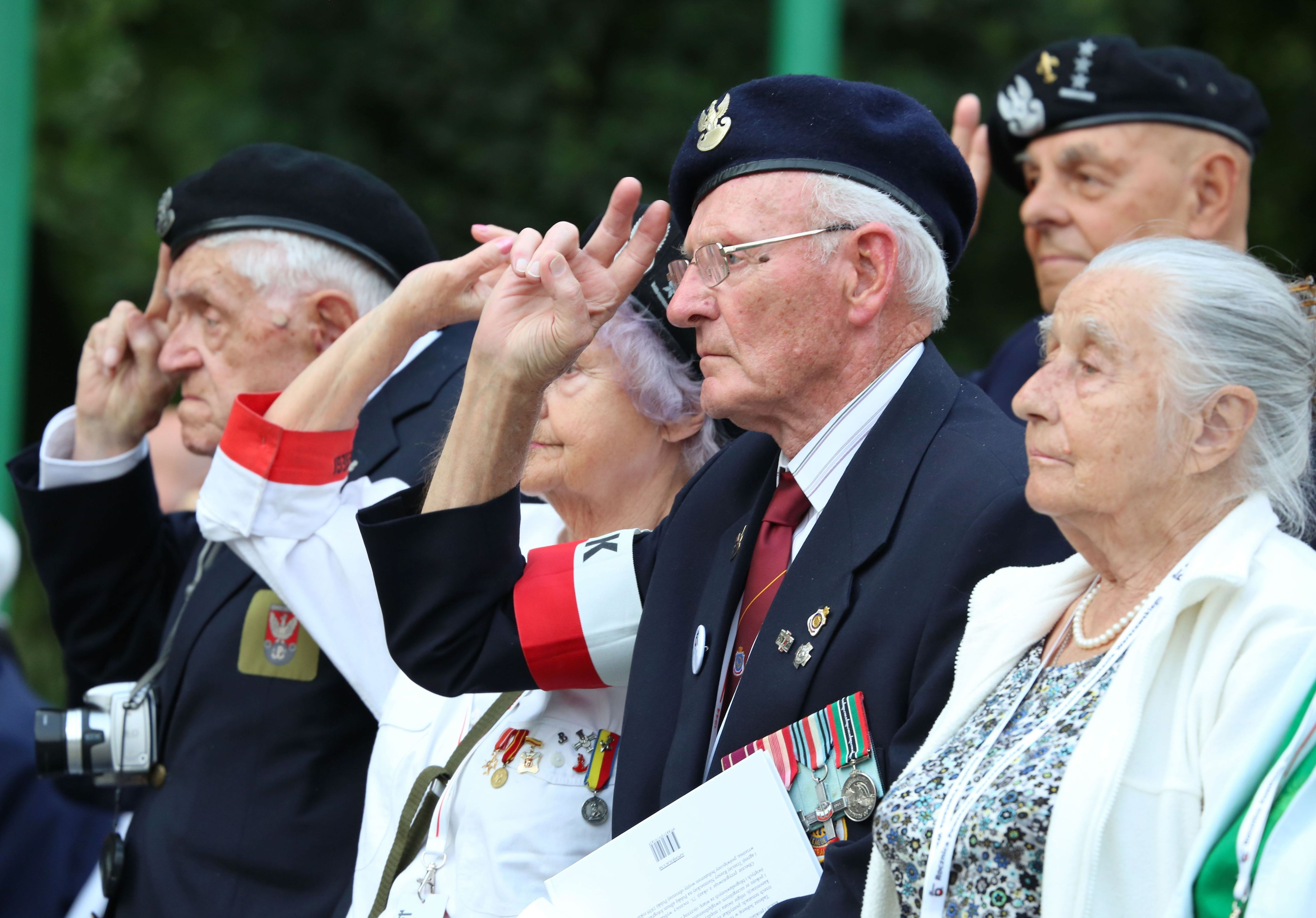 70th anniversary of the Warsaw Uprising celebrations at Polegli Niepokonani Monument in Warsaw